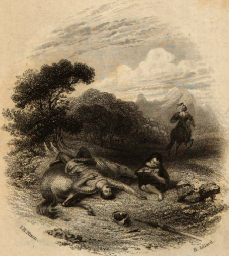 "Lord Cranstoun and the Goblin Page." The lay of the last minstrel - by Sir Walter Scott, Illustrated by James Henry Nixon